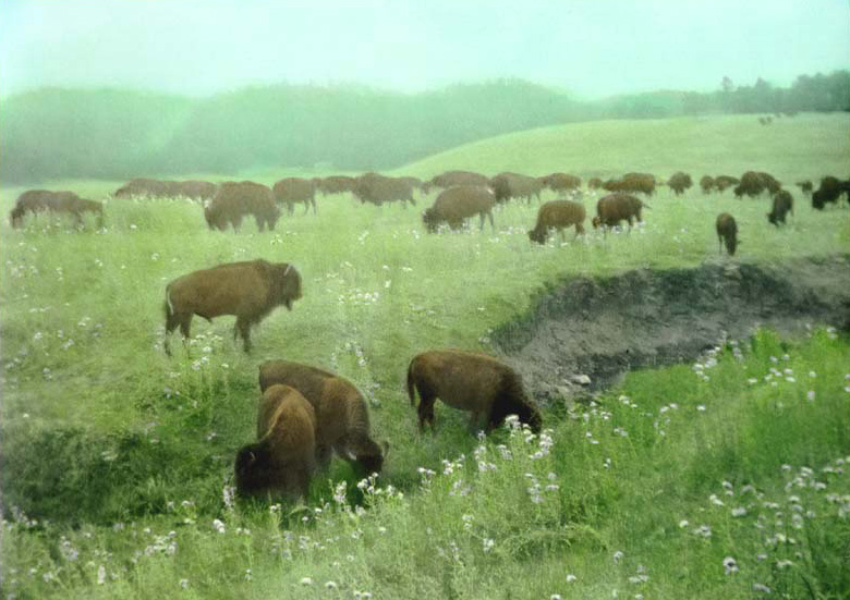 Hultstrand and F.A. Pazandak Photograph Collections, Library of Congress